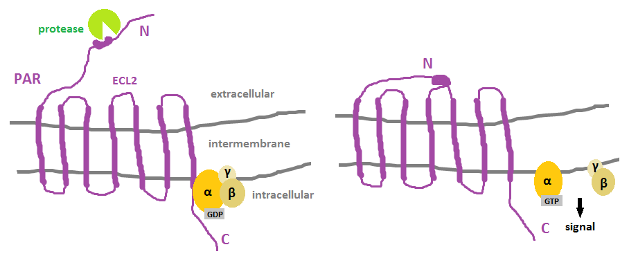 Protease cuts the N-terminal sequence of PAR that exposes a new N-terminal sequence functions as a tethered ligand, which bind a conserved region on extracellular loop 2 (ECL2). Such bound causes the specific change in conformation of the PAR and alters the affinity for intracellular G-protein.